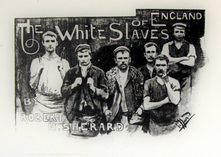 Chain makers of Cradley Heath, drawn in 1896 as illustration for White Slaves of England by Robert Sherard